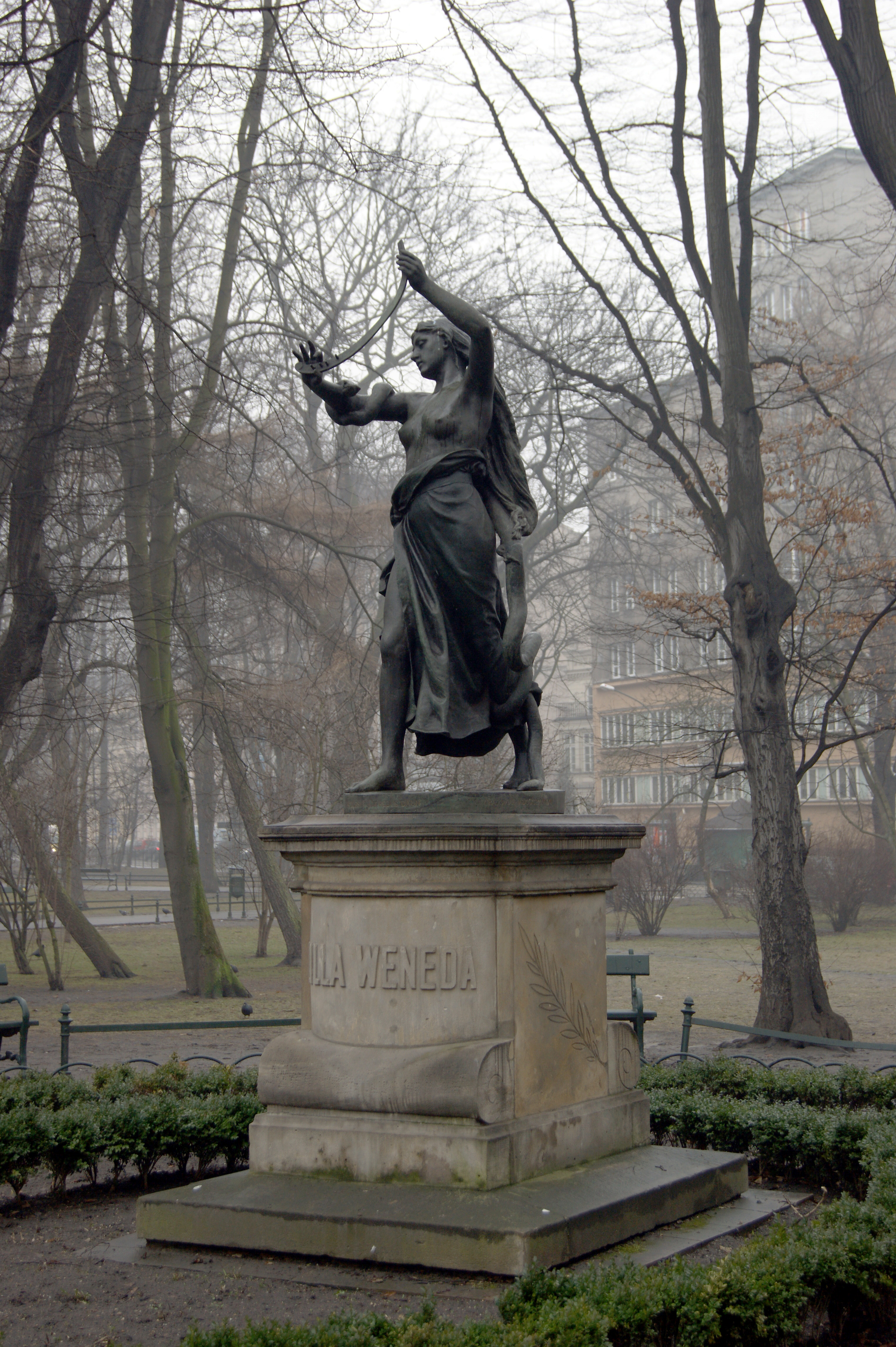 Juliusz Slowacki Memorial (Lilla Weneda monument), 1885 by sculptor Alfred Daun, Planty Garden, Old Town, Krakow, Poland